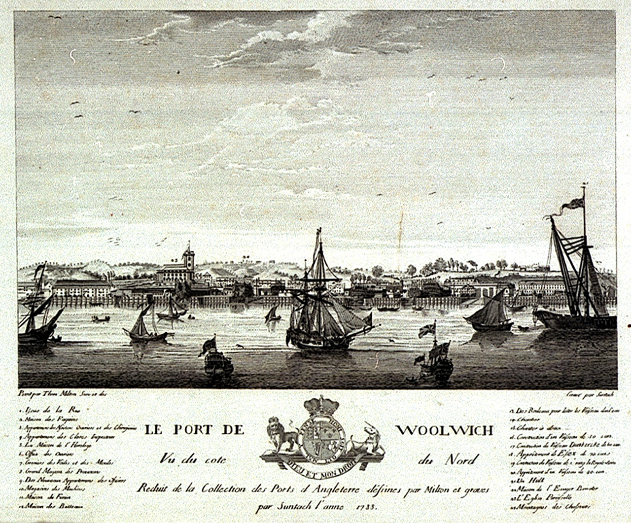 Port of Woolwich, as seen from the North; engraving